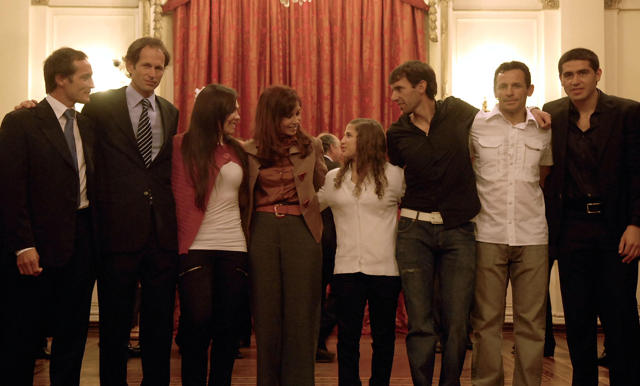 Argentina President Cristina Fernández receives olympic medalists in the Pink House. From left to right: Carlos Espínola, Santiago Lange, Noel Barrionuevo, President, Paula Pareto, Wálter Pérez, Juan Curuchet, Juan Román Riquelme.